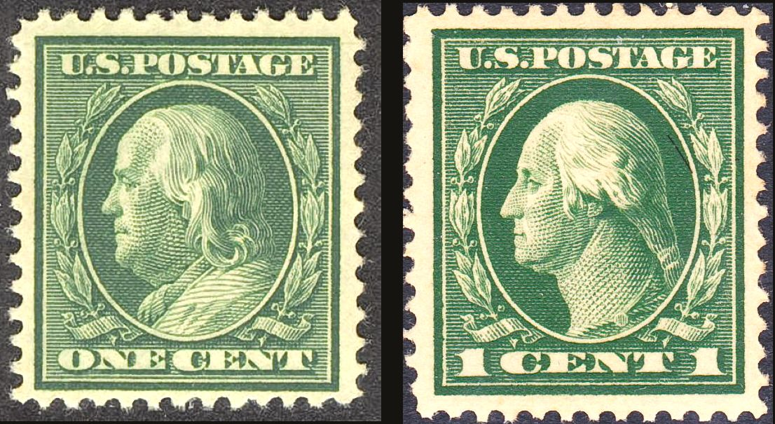 US Postage stamp, pair: Washington 1c Issue of 1908, and Franklin 1c Issue of 1912,Definitive Postage stamps